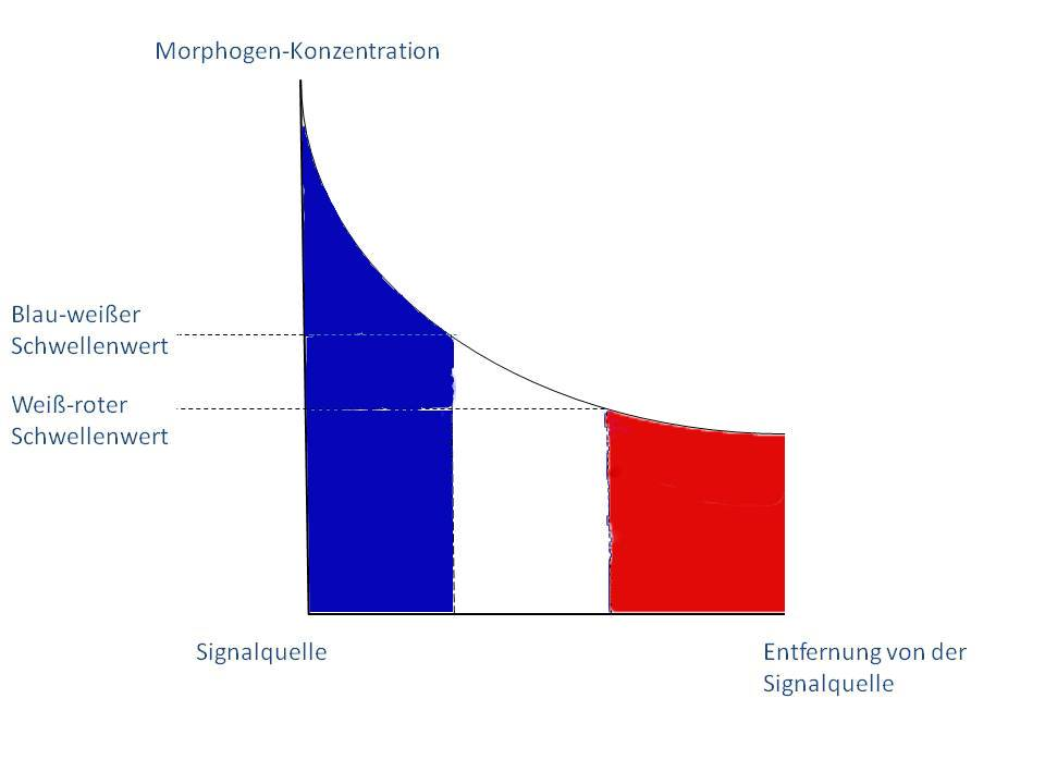 French flag model